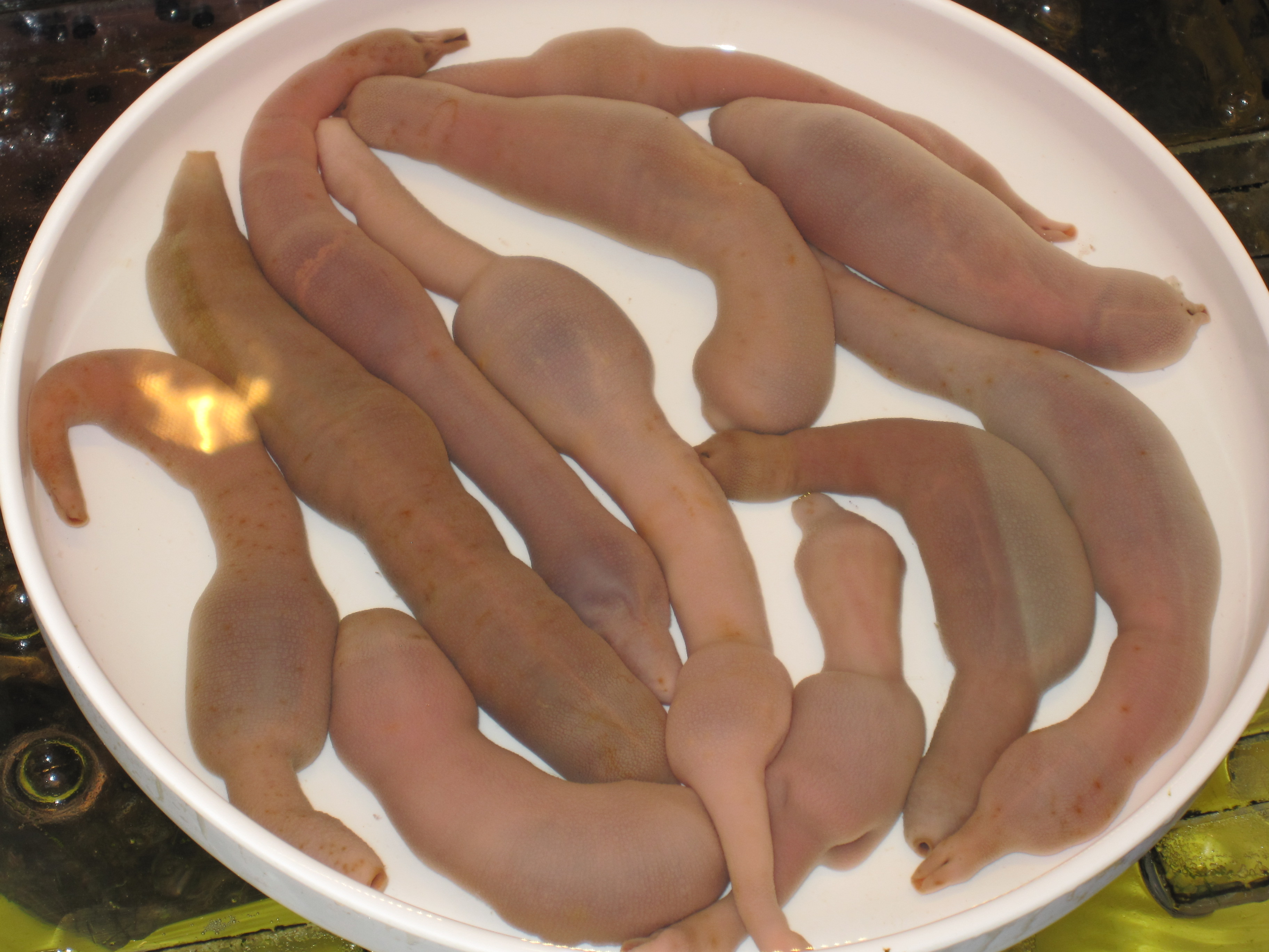 Echiura on a market in South Korea